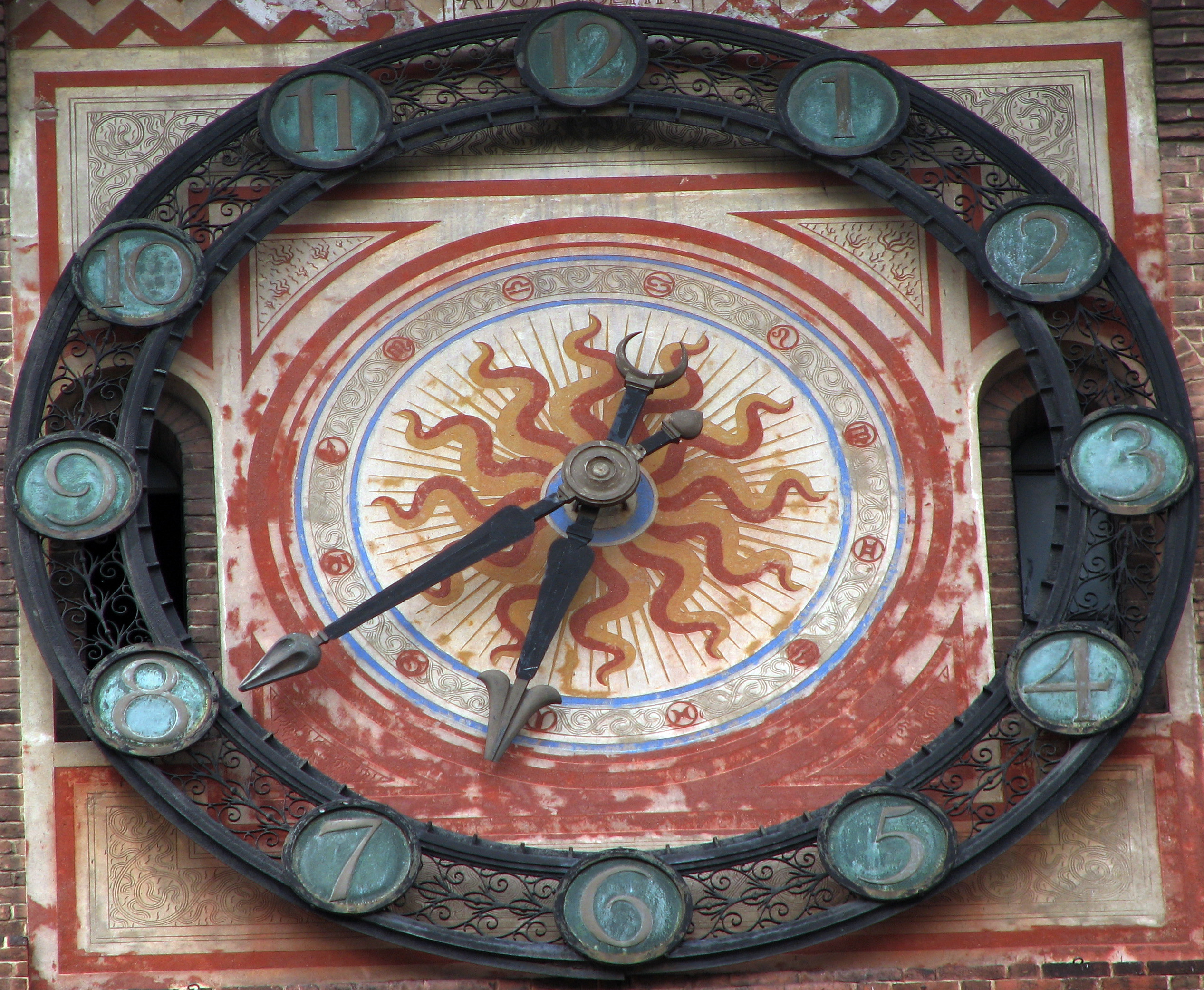 An early 20th century watch, in the gothic revival style, on the Torre del Filarete of the Castello Sforzesco, Milano, Italia. It represents the "razza" (beaming sun) an emblema used both by the Visconti and Sforza Houses.